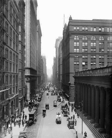 View of South LaSalle Street, looking north from the Board of Trade building in the Loop community area of Chicago. On the right (with the columns) is the Illinois Trust & Savings Bank, next to it is the Rookery Building. On the left, at the SW corner of Quincy Avenue and LaSalle is the Gaff Building. Across Quincy Avenue is the Insurance Exchange building. Text on image reads LaSalle Street and the negative is date stamped May 5, 1916.